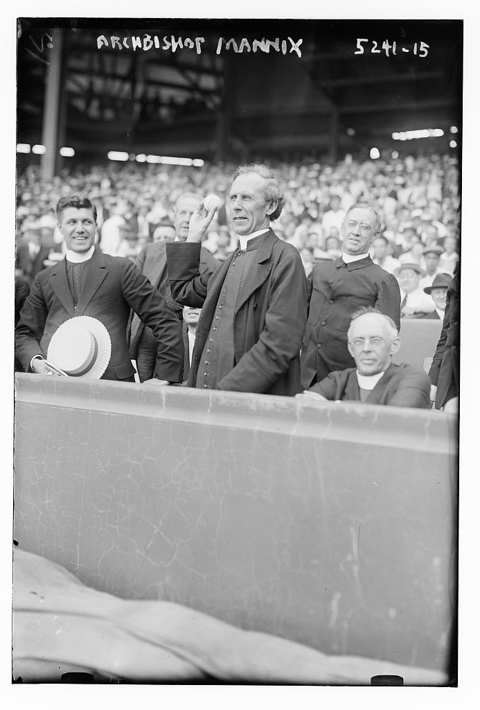 Australian Archbishop Daniel Mannix of Melbourne, throwing baseball at Polo Grounds on August 1, 1920 at the Yankees-White Sox double header game.